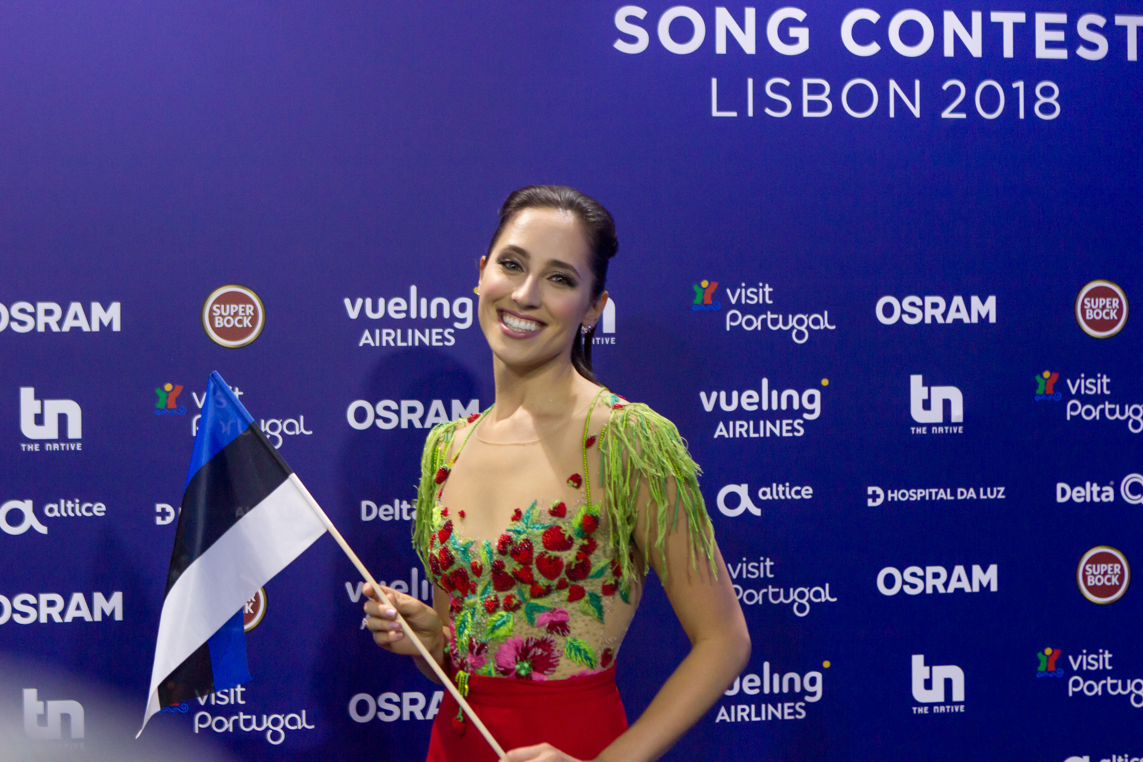 Press conference after the first Semi-Final of the 2018 Eurovision Song Contest